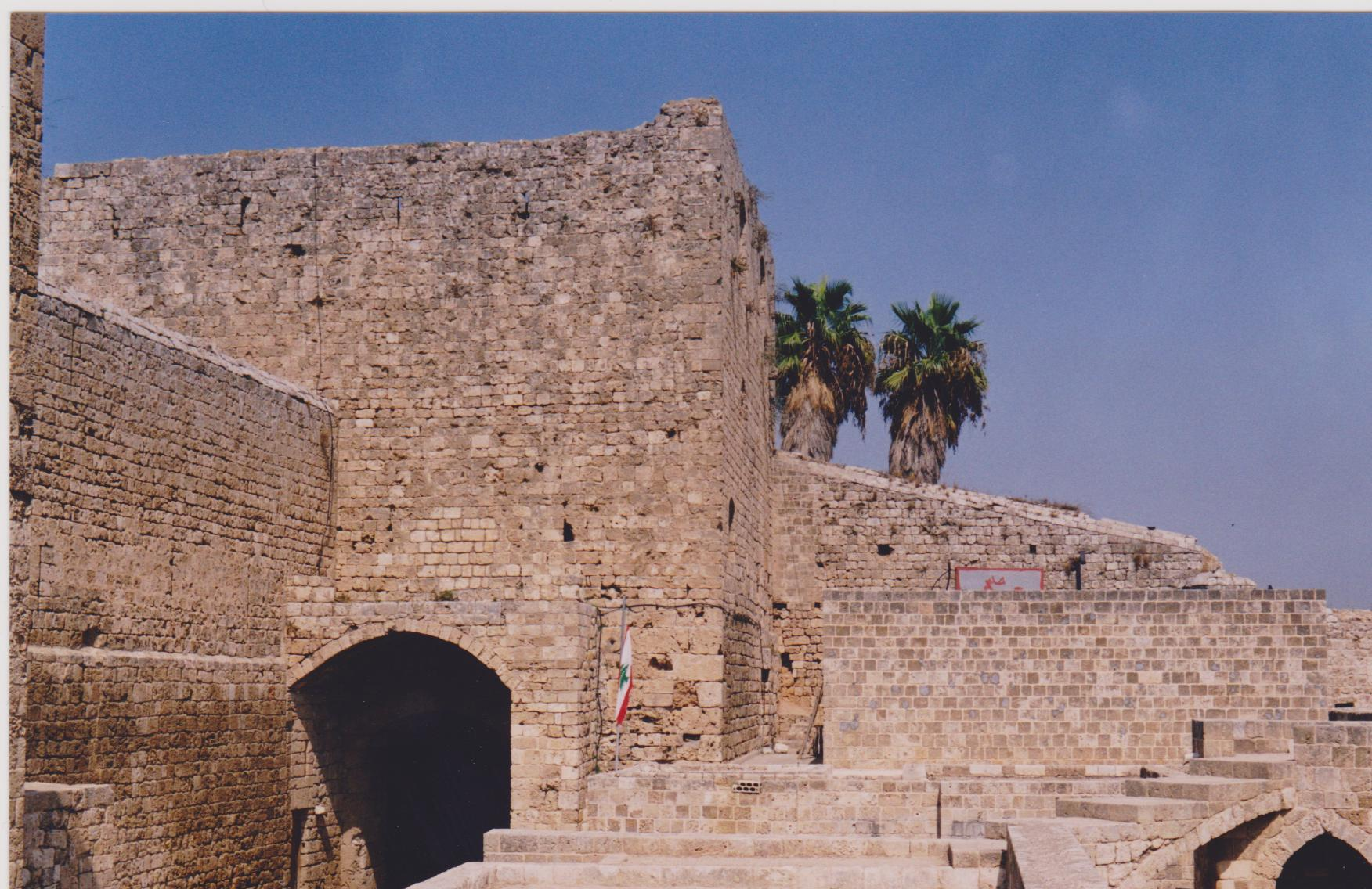 Citadel Raymond de Saint-Gilles, Tripoli Lebanon